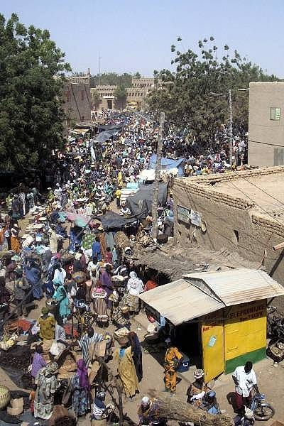 Crowded scenes like this market in Delhi (India) might at first seem to confirm Malthusian views of populations growth. However, standards of living and availability of food in countries like India have never been higher.